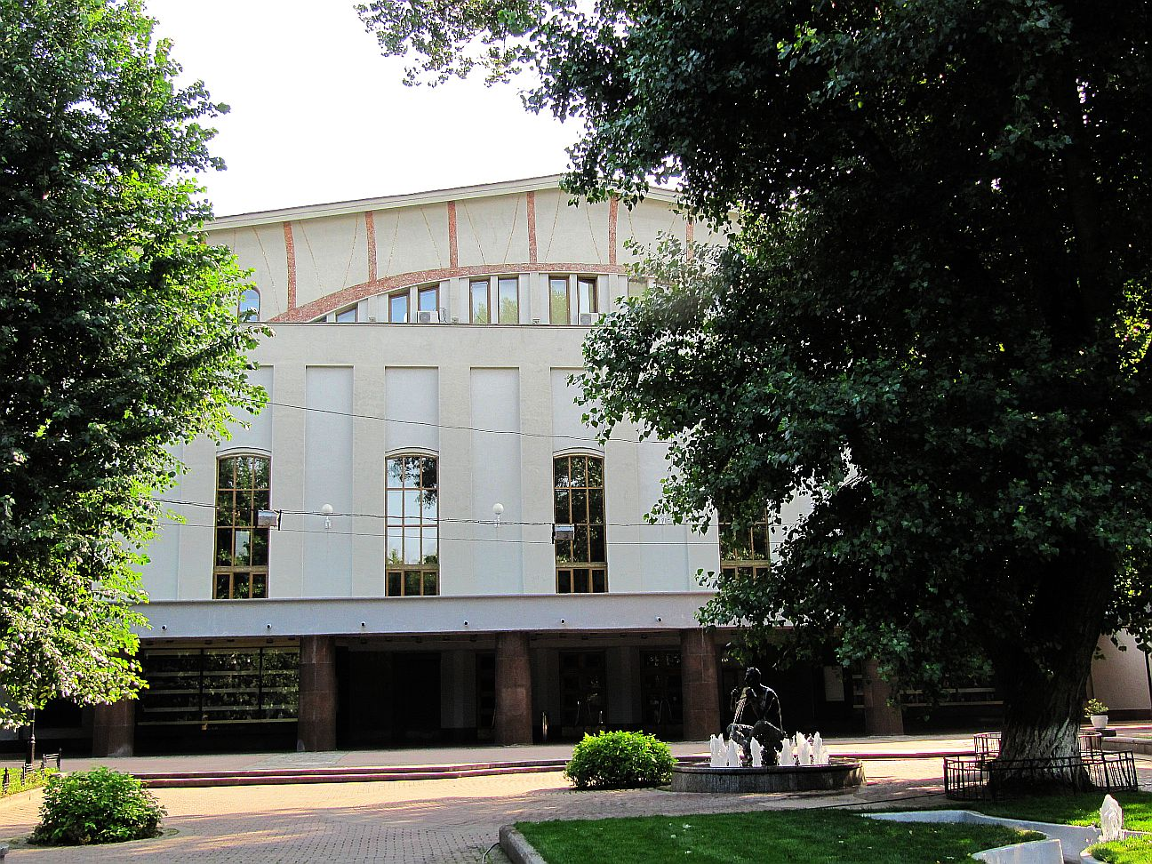 Mossovet Theatre at the Aquarium Garden in Moscow